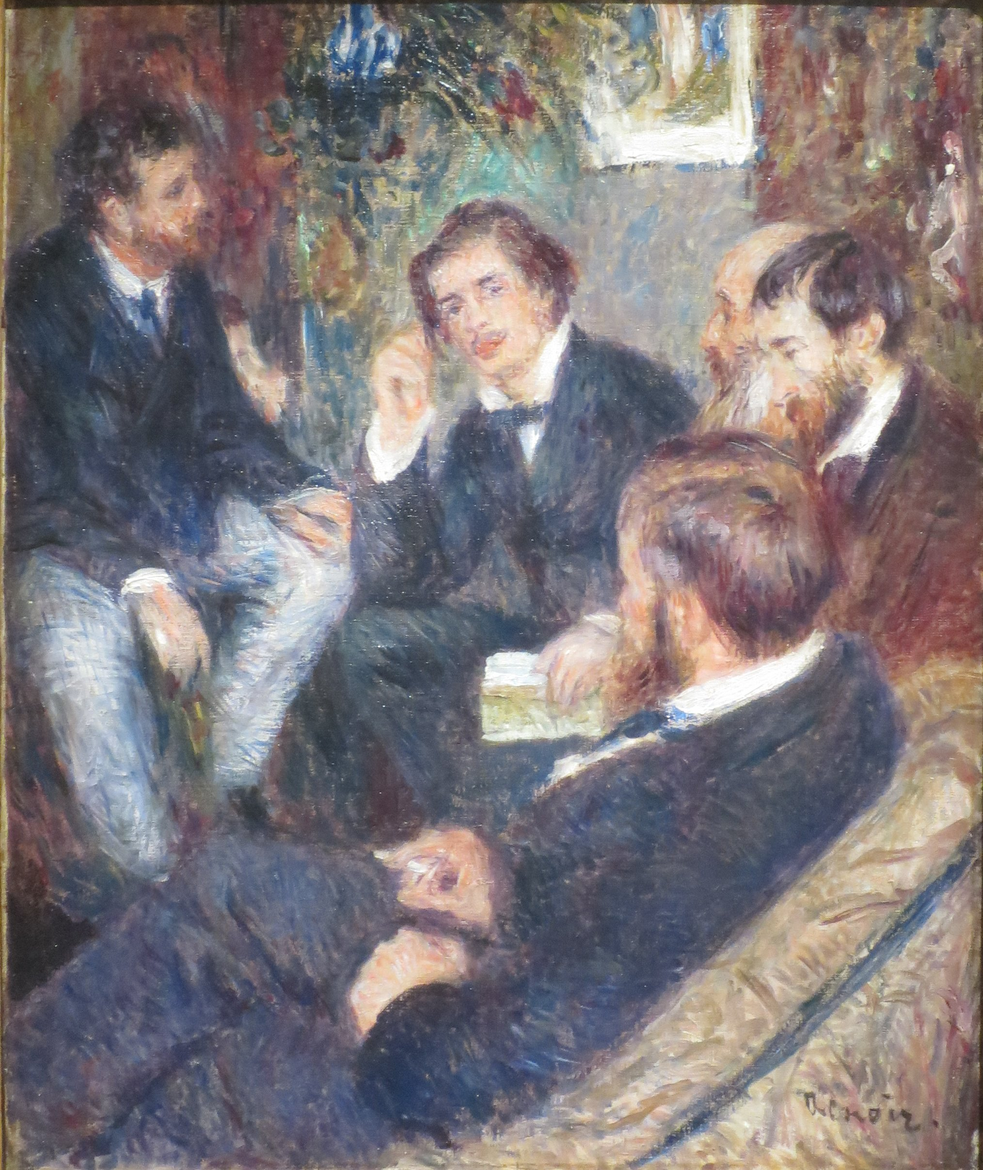 At Renoir's Home, rue St. Georges by Pierre-Auguste Renoir, 1876, oil on canvas, Norton Simon Museum. Two of the subjects have been identified as Georges Rivière (center) and Camille Pissarro (right, partially hidden)